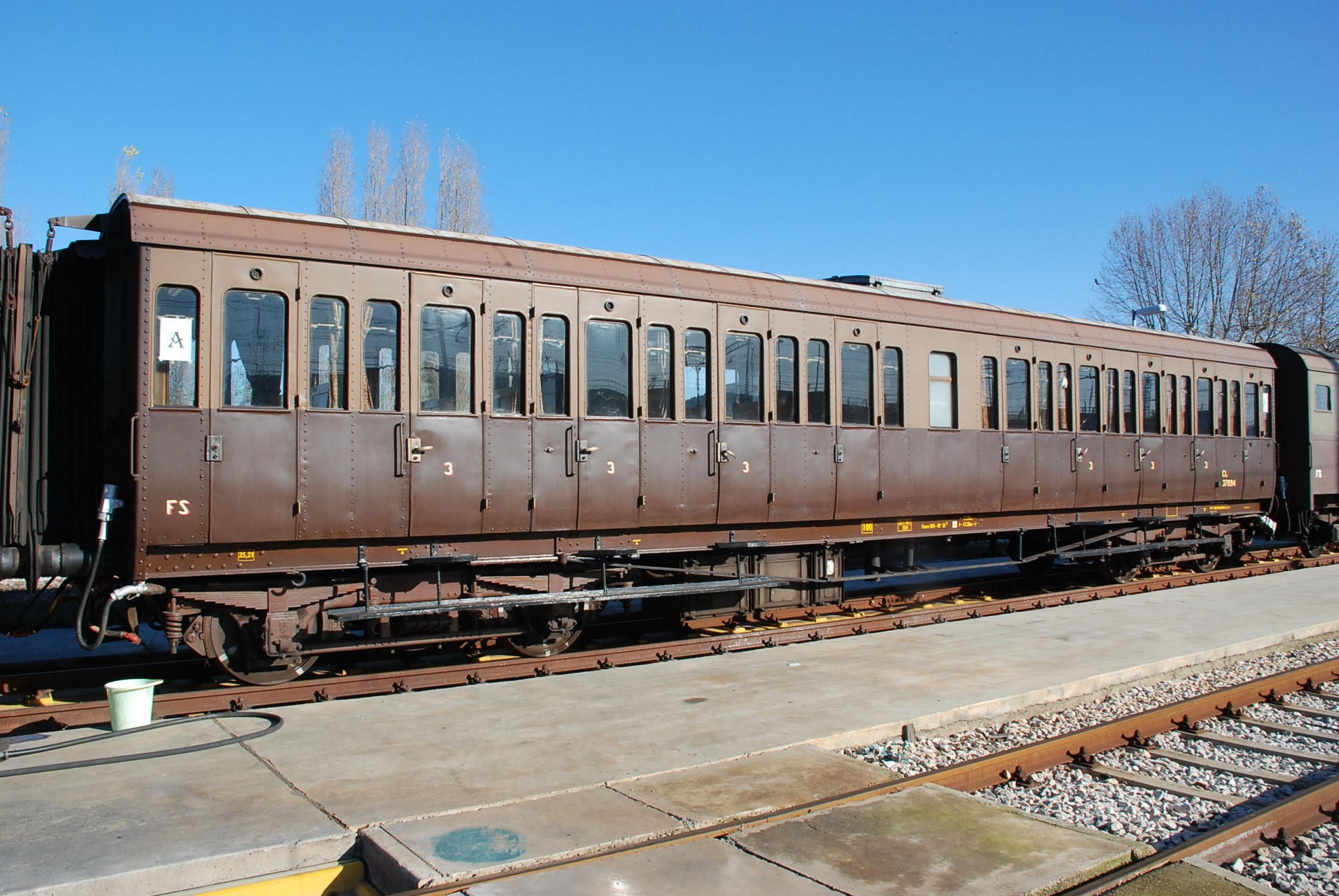 Finding treasures like this old carriage is one of the joys of searching for film / TV locations on the railway. This carriage belongs to the Treni Storici Emilia Romagna.